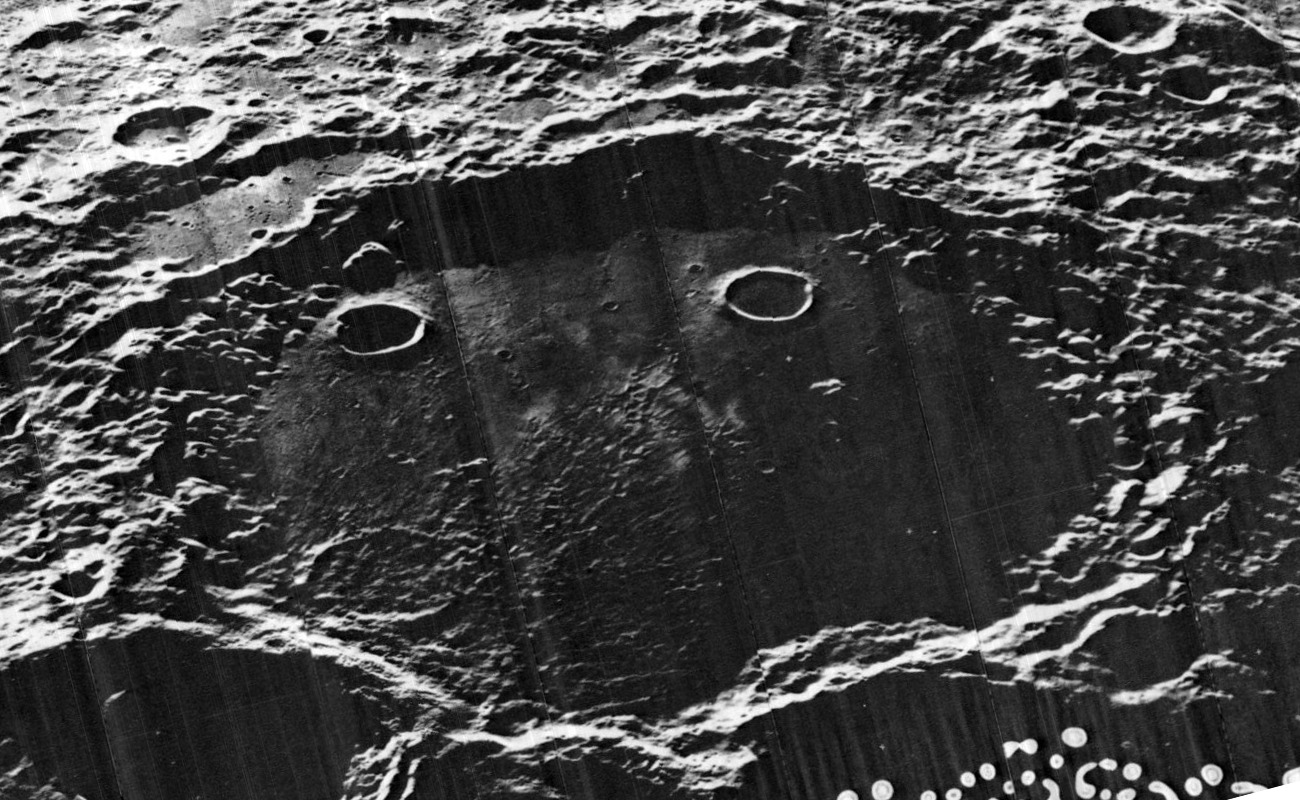 Oblique view of Leibnitz, on the far side of the moon, facing west. Dots at bottom right are blemishes on original.